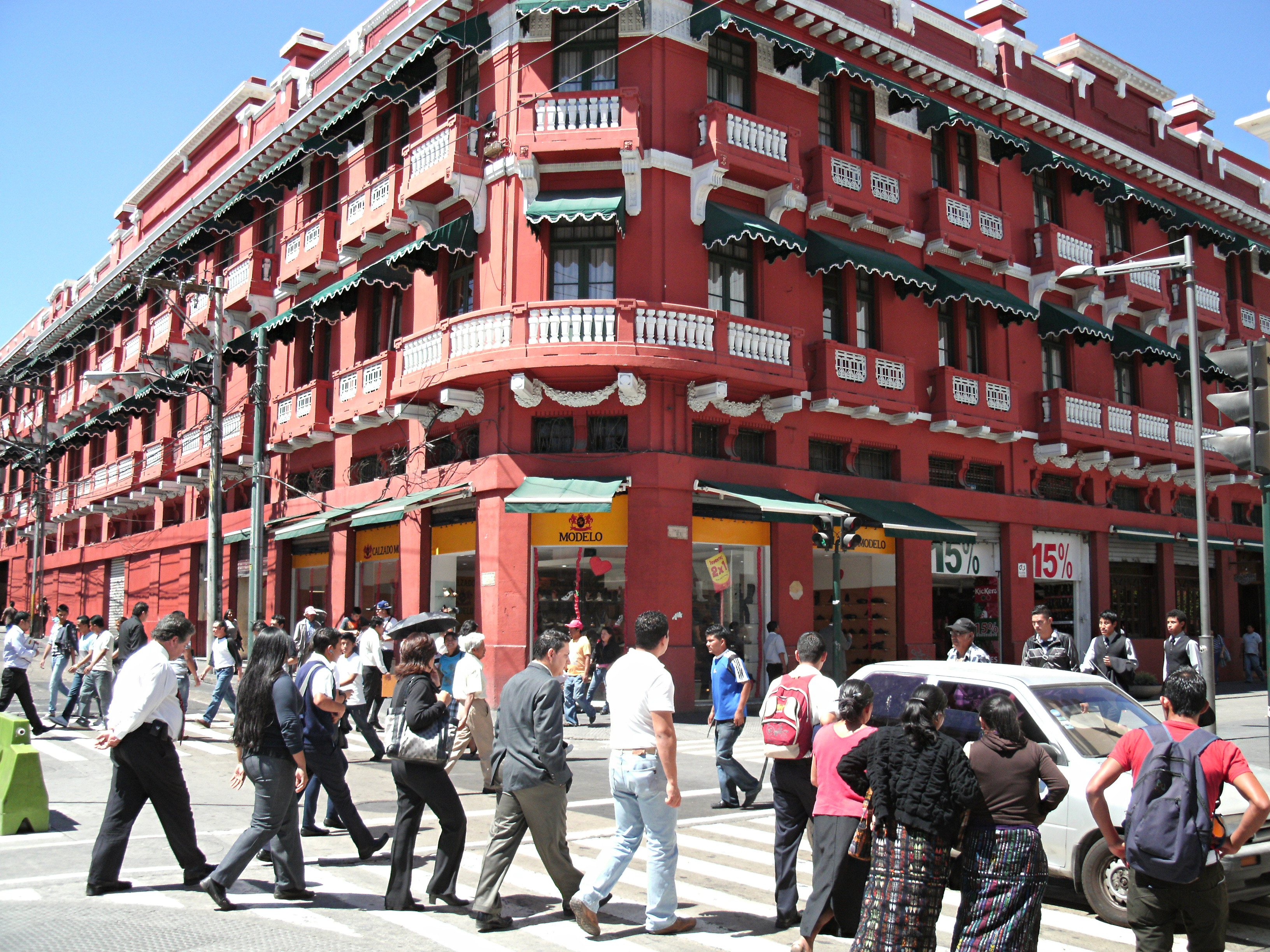 Commercial district, Guatemala City FILE: GEDC0187.JPG Attribution: VATICANUS or vaticanus